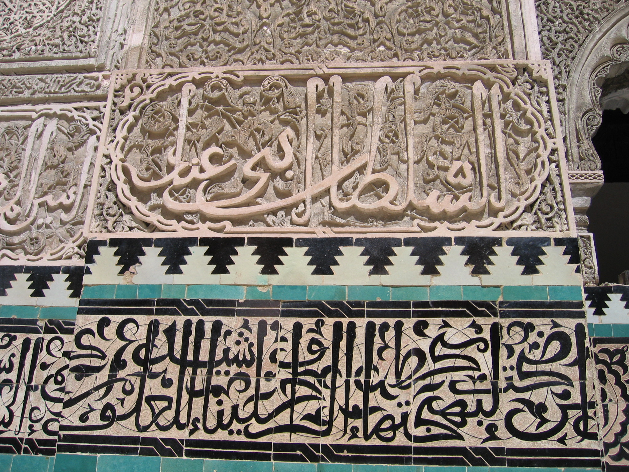 Detail of calligraphy sculptures on a wall of the Bou Inania Madrasa, Fes, Morocco.